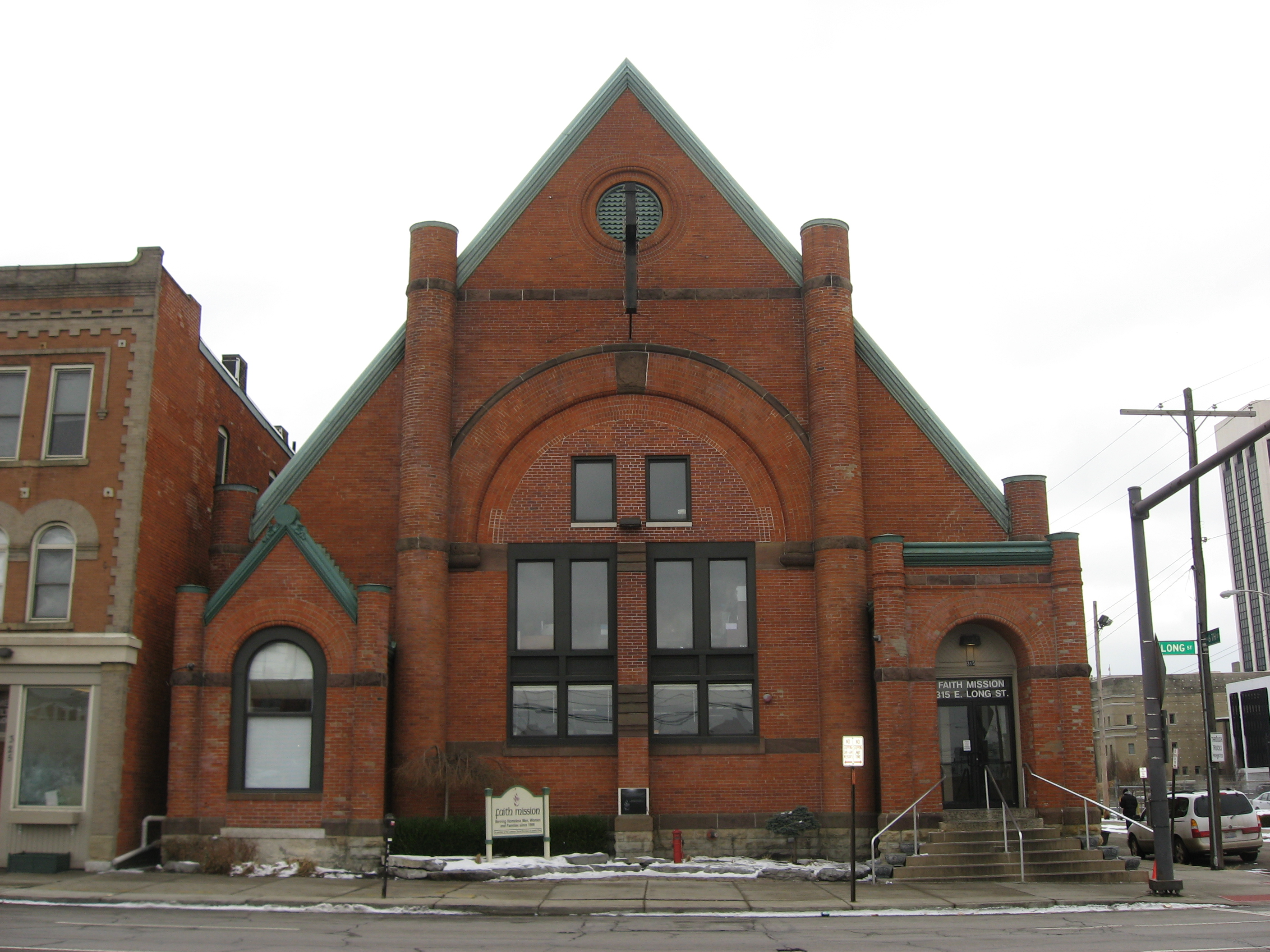 Front of the former Welsh Presbyterian Church, located at 315 E. Long Street in downtown Columbus, Ohio, United States. Built in 1887 and since converted into a homeless mission, it is listed on the National Register of Historic Places. Owner's website.